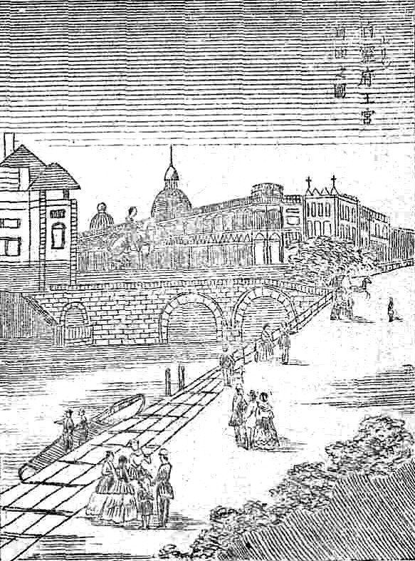 Schloßbrücke in Berlin in a Japanese Book 1876